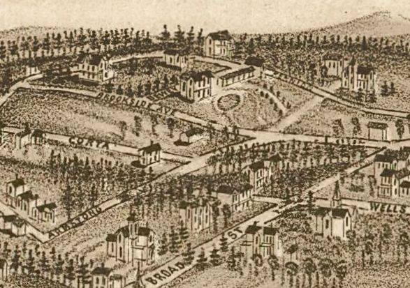 North Knoxville, including what is now known as Old North Knoxville, as it appeared on an 1886 map of Knoxville, Tennessee, USA. "Broad Street" is now Broadway, "Kennion" is now Kenyon Avenue, and "Brookside" roughly follows what is now Glenwood (Brookside originally traversed much of North Knoxville, although today only a section of the former road is still known as Brookside). Cropped from map entitled, "Knoxville, Tennessee, County Seat of Knox County."